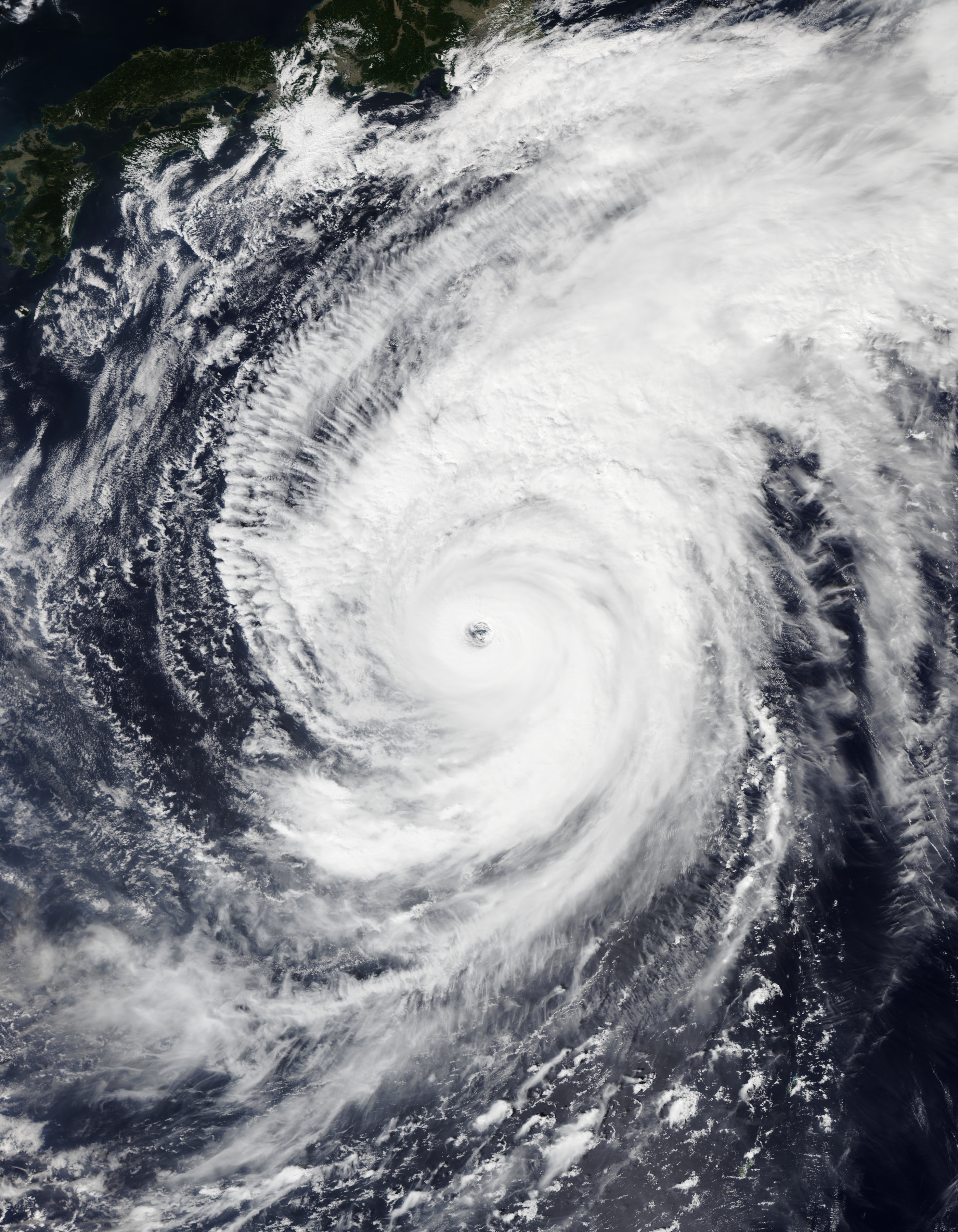 Typhoon Hagibis on October 10, 2019